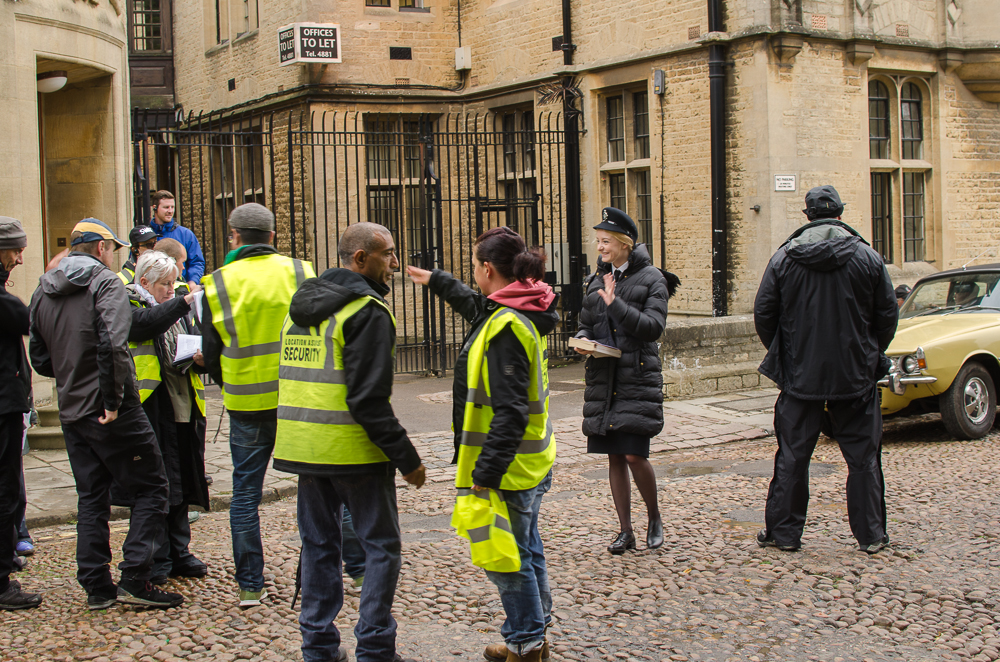 Dakota Blue Richards as Shirley Trewlove on Endeavour TV series set, Merton Street, Oxford. Filming the Endeavour episode "Coda" (2016).